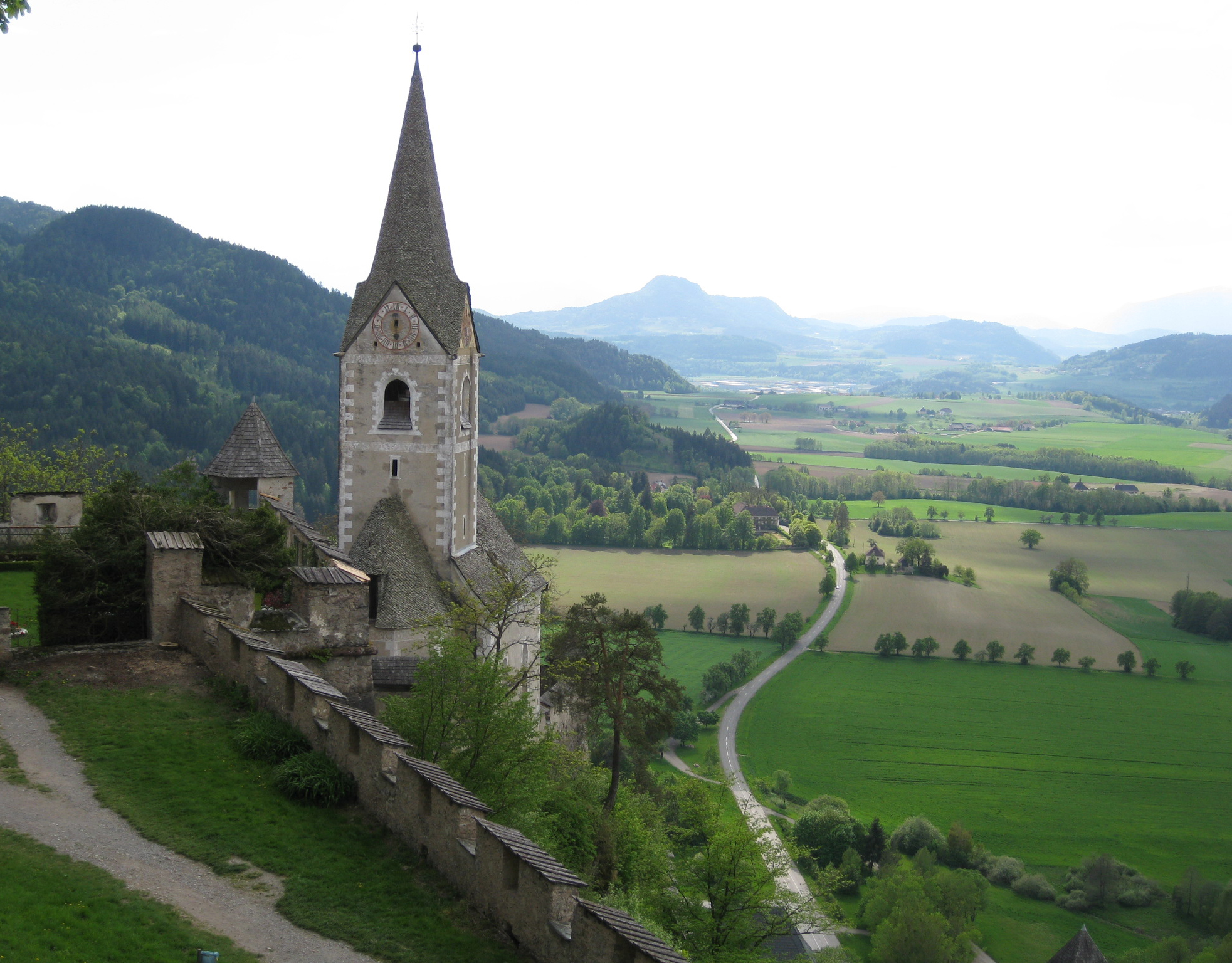 Hochosterwitz castle (slovenian: grad Ostrovica), castle in Carinthia state, Austria Church